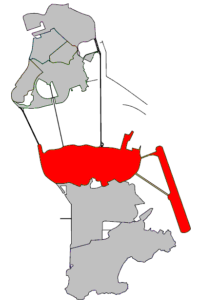 Parish in Macau